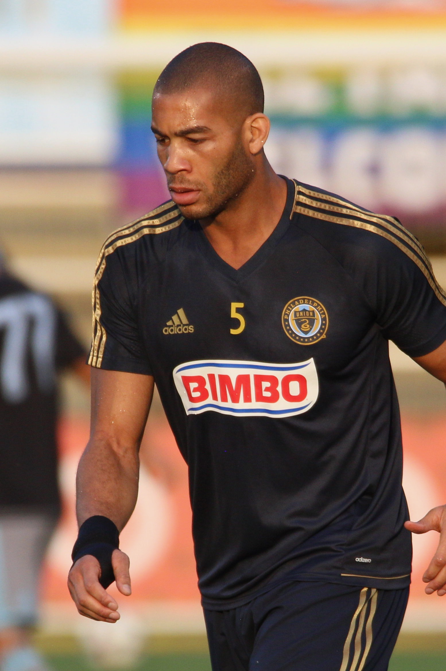 Onyewu - Philadelphia Union - Minnesota UNITED - MLS - Soccer